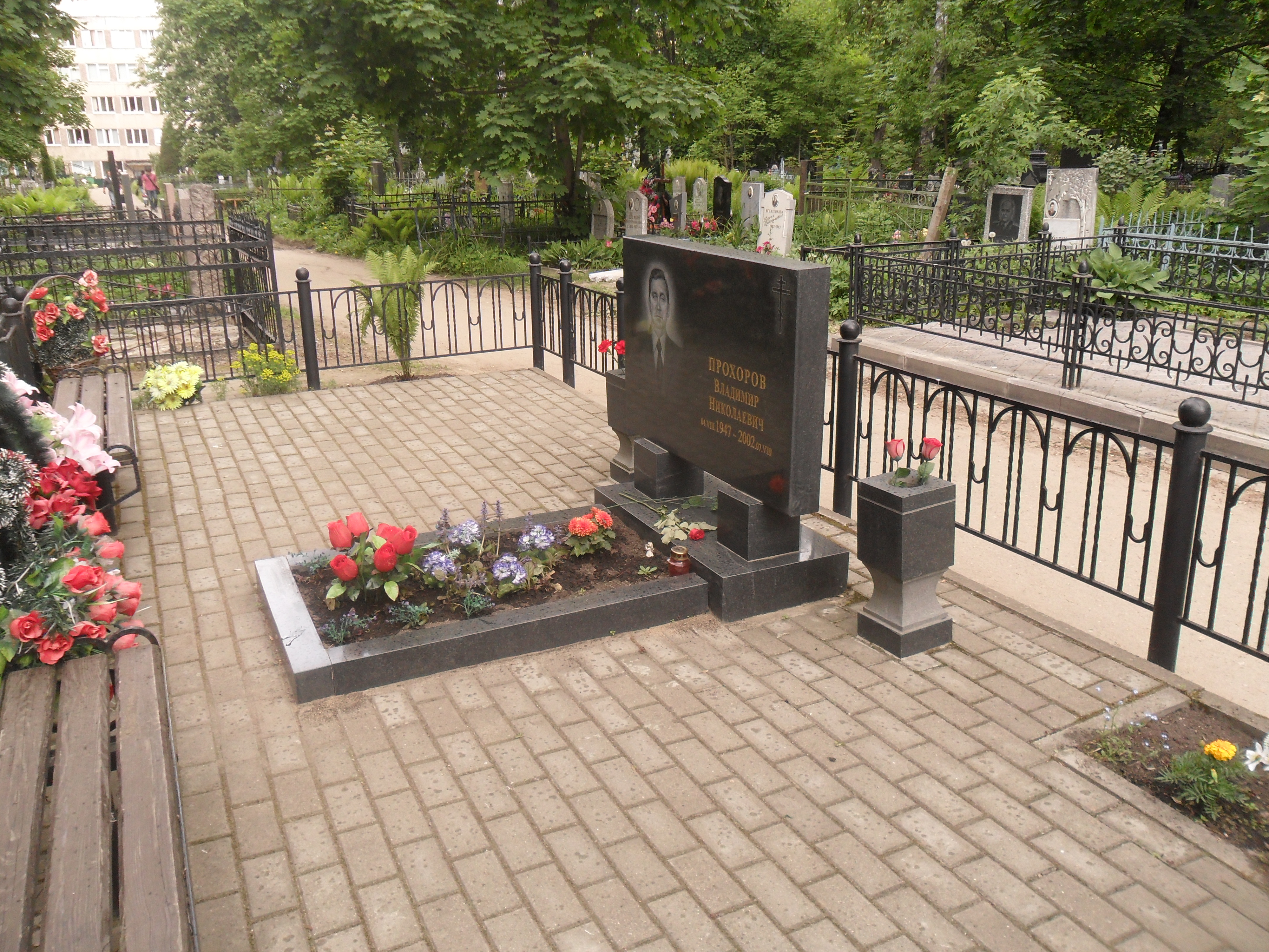 Tomb of the Deputy Head of Administration of the Smolensk region, Vladimir Prokhorov, a victim of assassination, the Fraternal Cemetery in Smolensk.